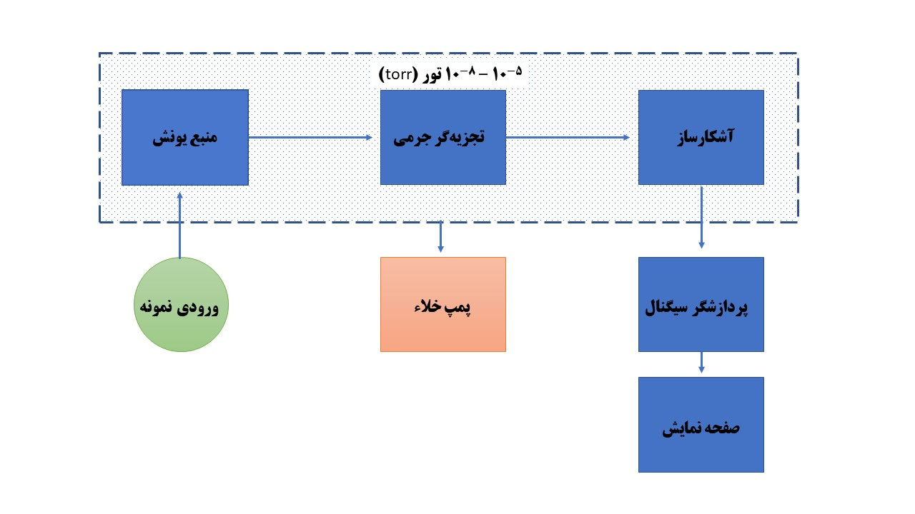 Block diagram of a mass spectrometer